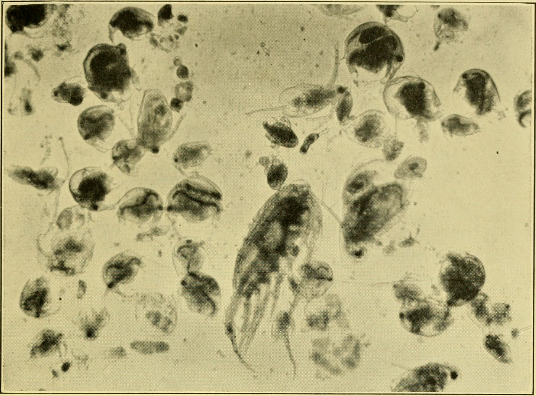 Title: Animal ecology Year: 1927 (1920s) Authors: Elton, Charles S. (Charles Sutherland), 1900- Subjects: Animal ecology Publisher: New York, Macmillan Co. Text Appearing Before Image: PLATE VI Text Appearing After Image: (a) A typical animal community in the plankton of a tarn in the English Lake District. Three important key-industry animals are shown : Diapto7nus, Daph/iia, and Bosinina.